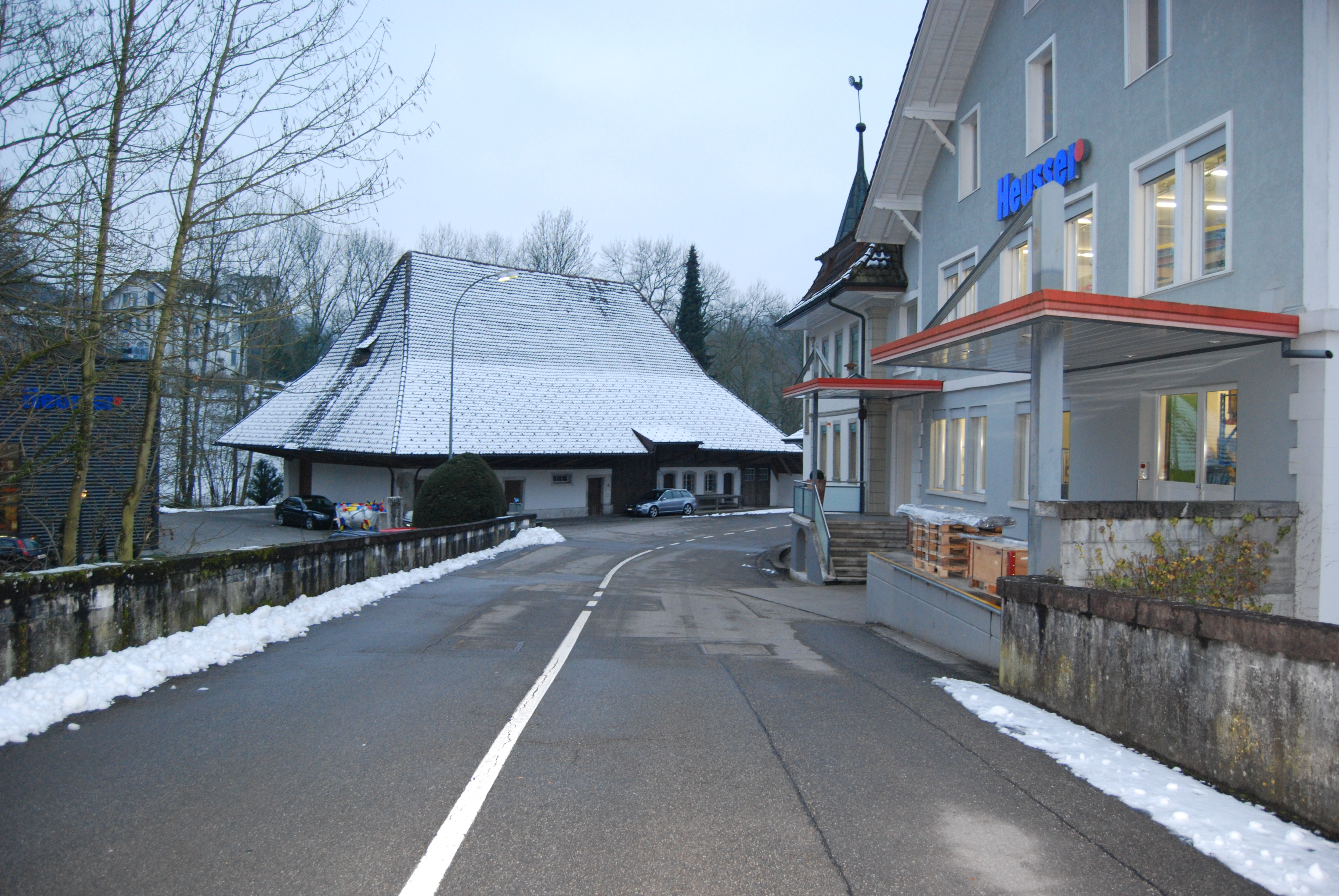 Wynau, canton Berne, SwitzerlandEsperanto: Wynau, Kantono Berno, Svislando